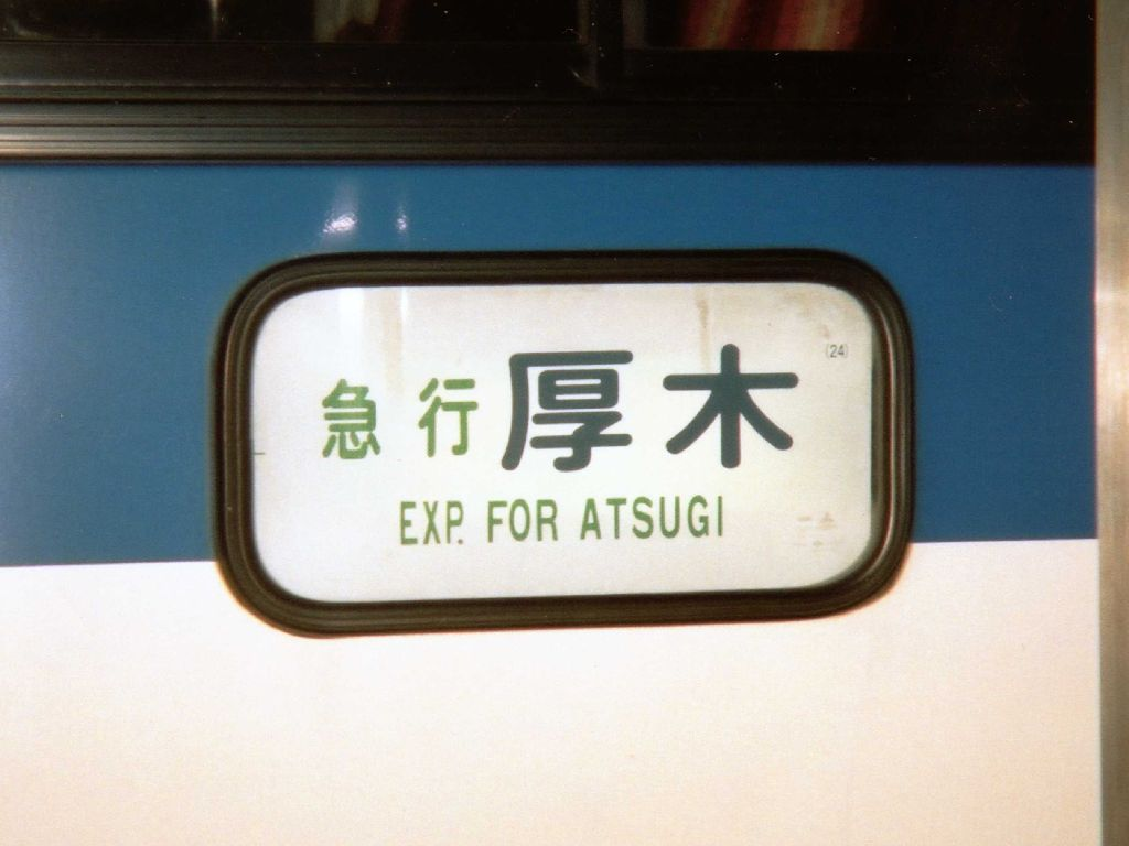 Information board of Tomei Highway Bus bound for Atsugi